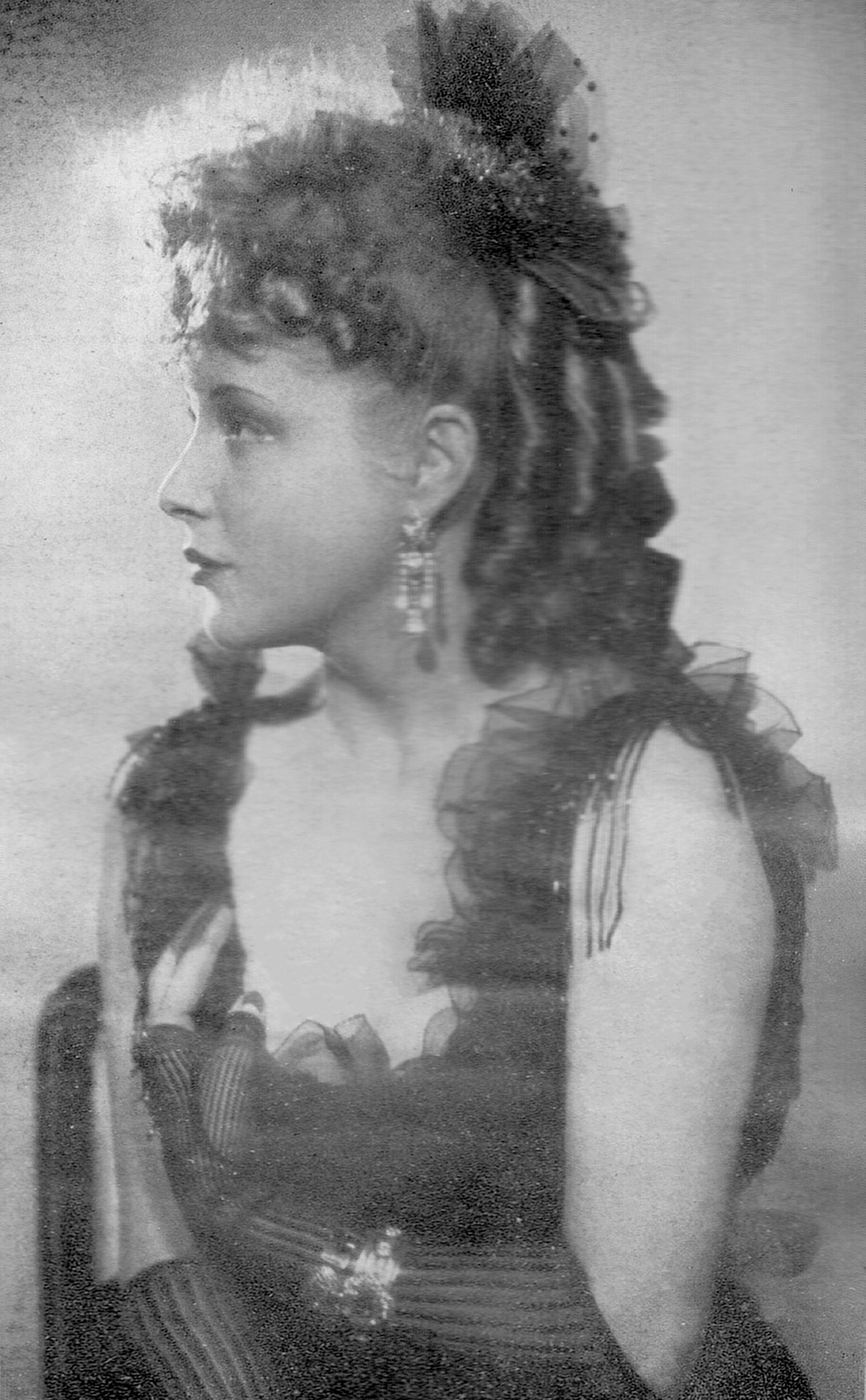 photo from the monthly magazine La Lettura, February 1941